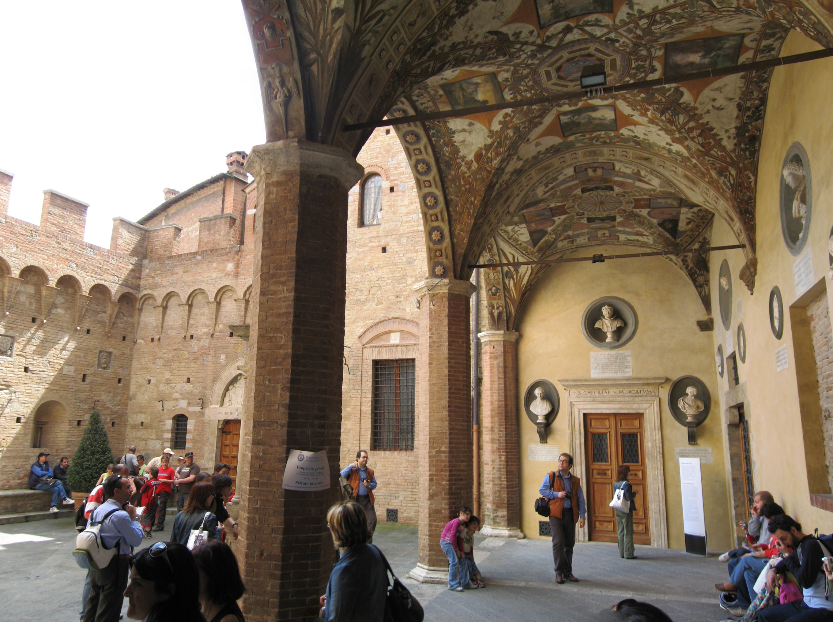 Palazzo Medici-Riccardi.